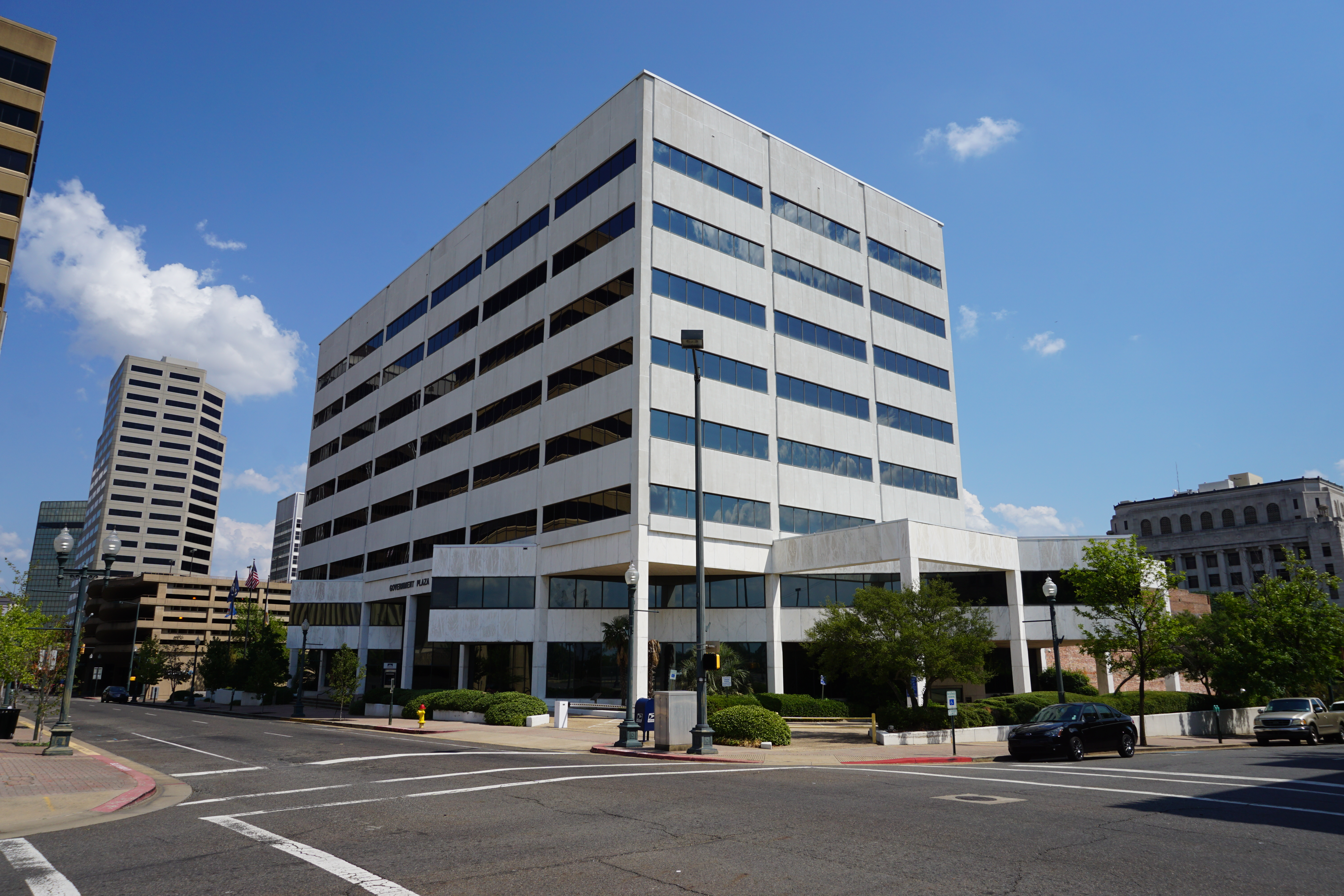 Government Plaza in Shreveport, Louisiana (United States).